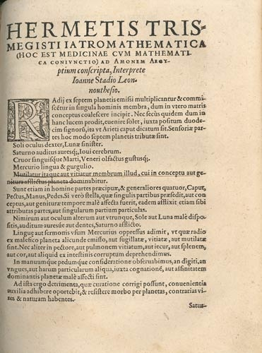 Iatromathematicum (attributed to Hermes Trismegistus) translated into Latin by Flemish mathematician and astronomer/astrologer Joannes Stadius (or Johannes Stadius or Jan Van Ostaeyen) (1527-1579)